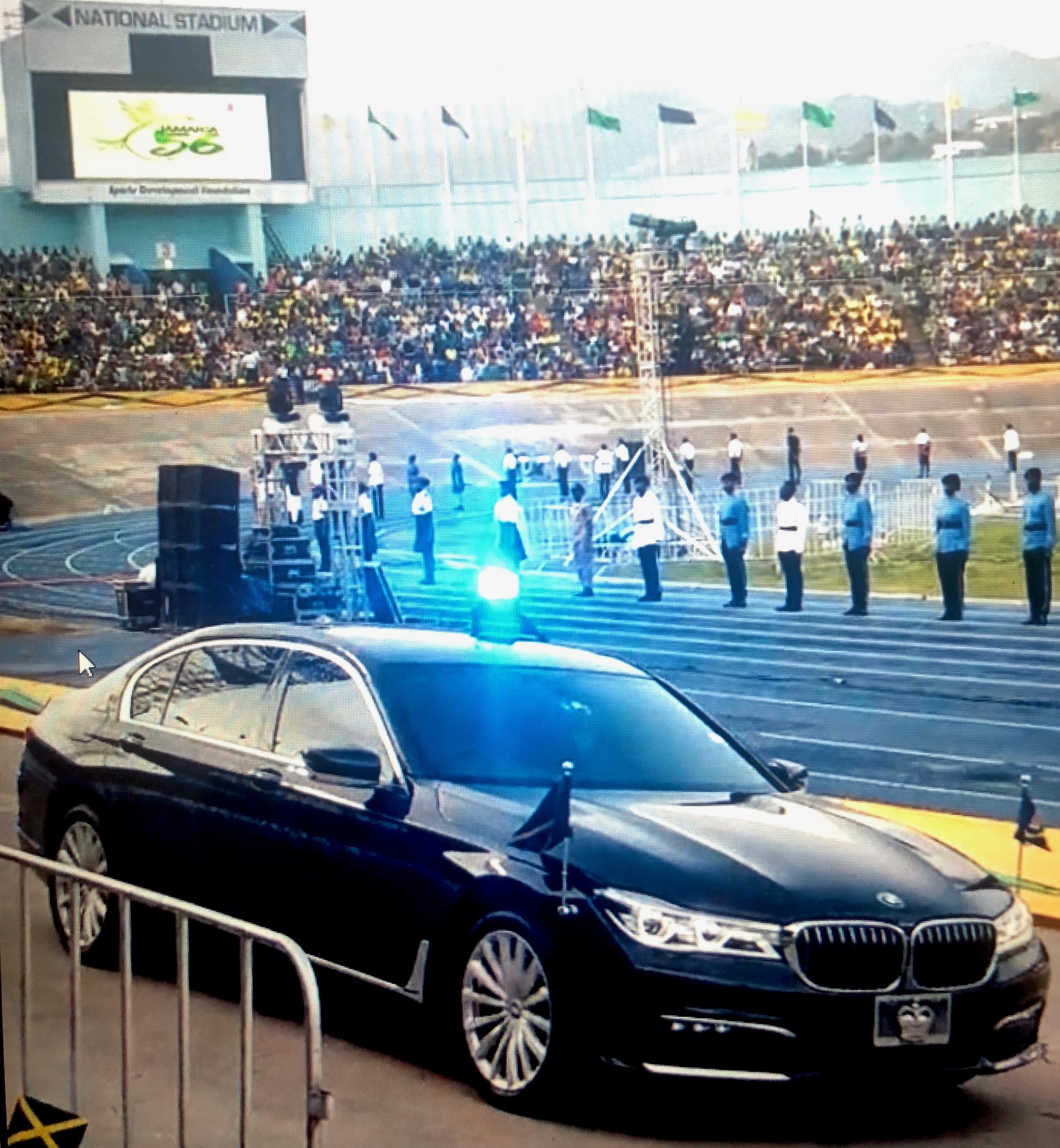 The arrival of the Most Hon. Sir Patrick Allen Governor-General of Jamaica and the Most Hon. Lady Allen at the National Stadium.